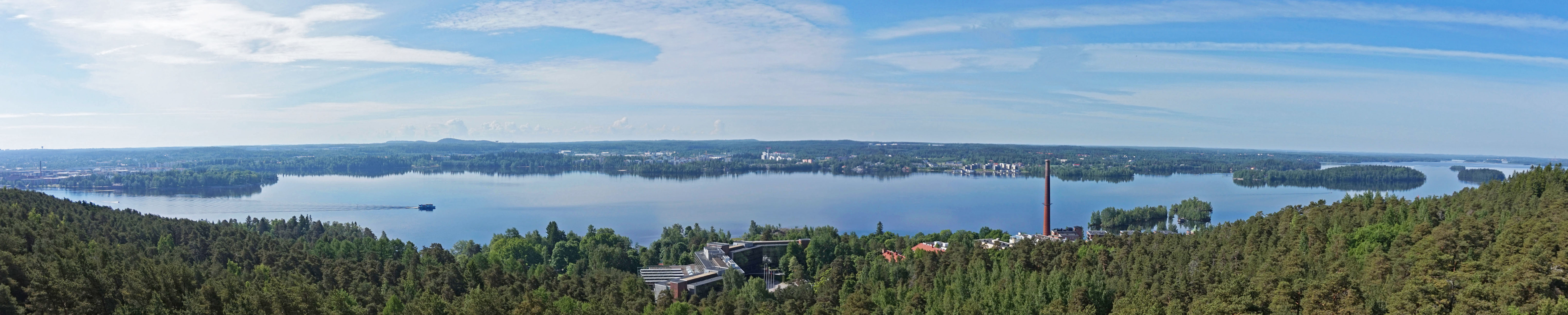 The lake Pyhäjärvi in Tampere, Finland. View from the Pyynikki tower.This photograph was taken with a Sony ILCE-5000